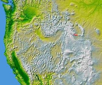 Owl Creek Mountains in Wyoming © 2004 Matthew Trump